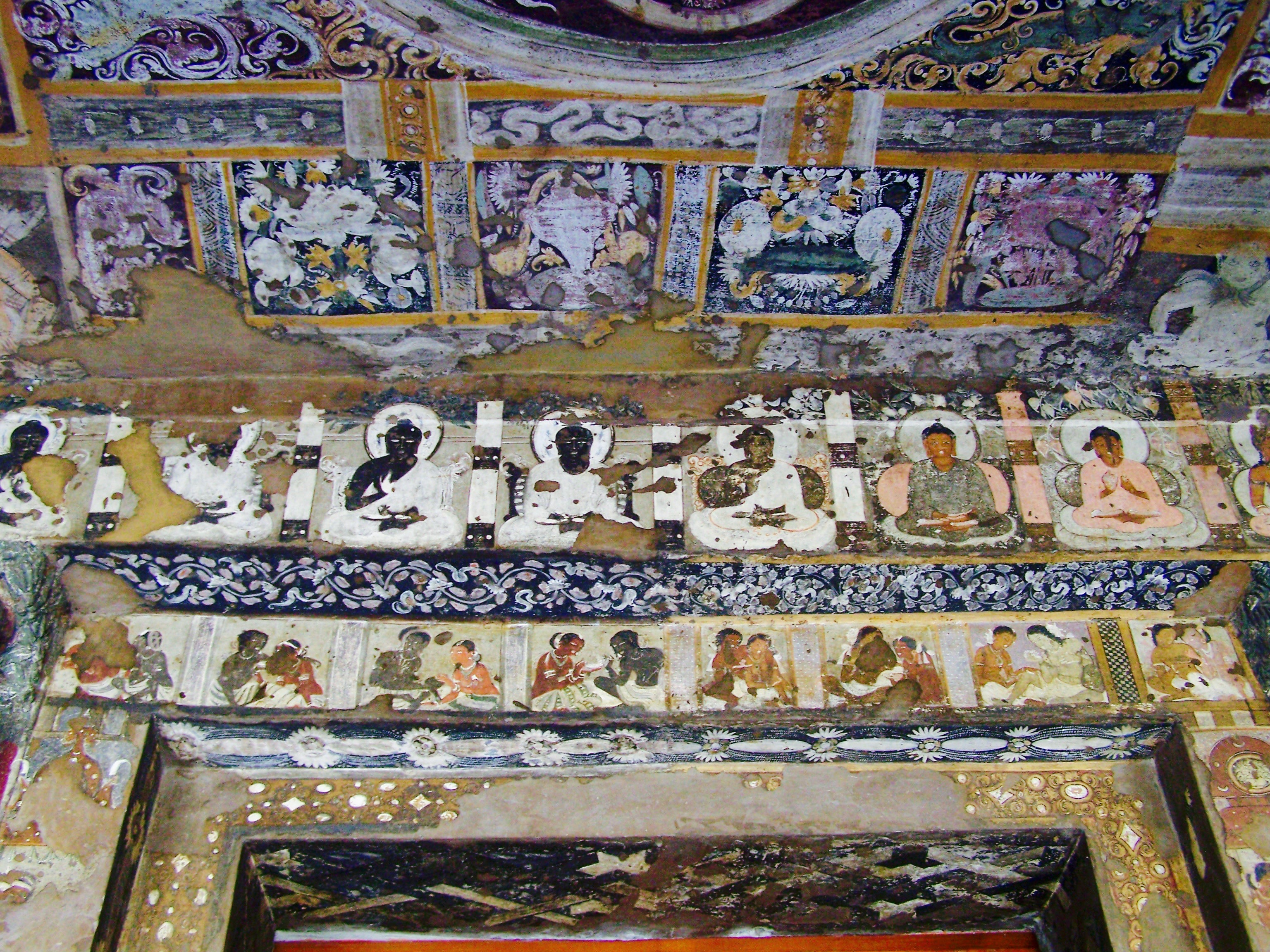 Frescoes above (I believe) the central doorway to Ajanta cave 17. The ceiling is covered in decorative patterns, below is a row of Buddhas, and just above the doorway a couple of every day life scenes.